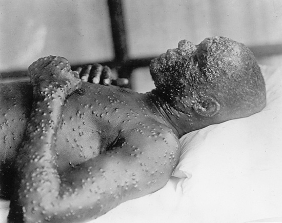 Man with Smallpox. (Reeve 48135)